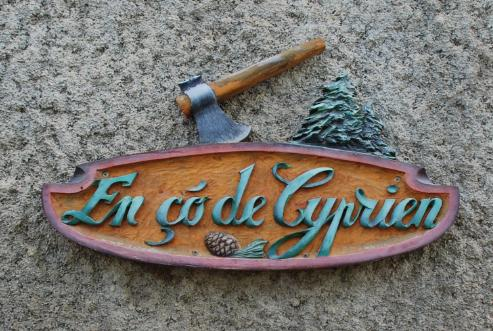 Enseigne de la maison Cyprien à Bourréac. Elle fait référence à l'activité de bûcheronnage importée dans cette maison par Joseph Sanguinet-Arboucau et développée par ses fils